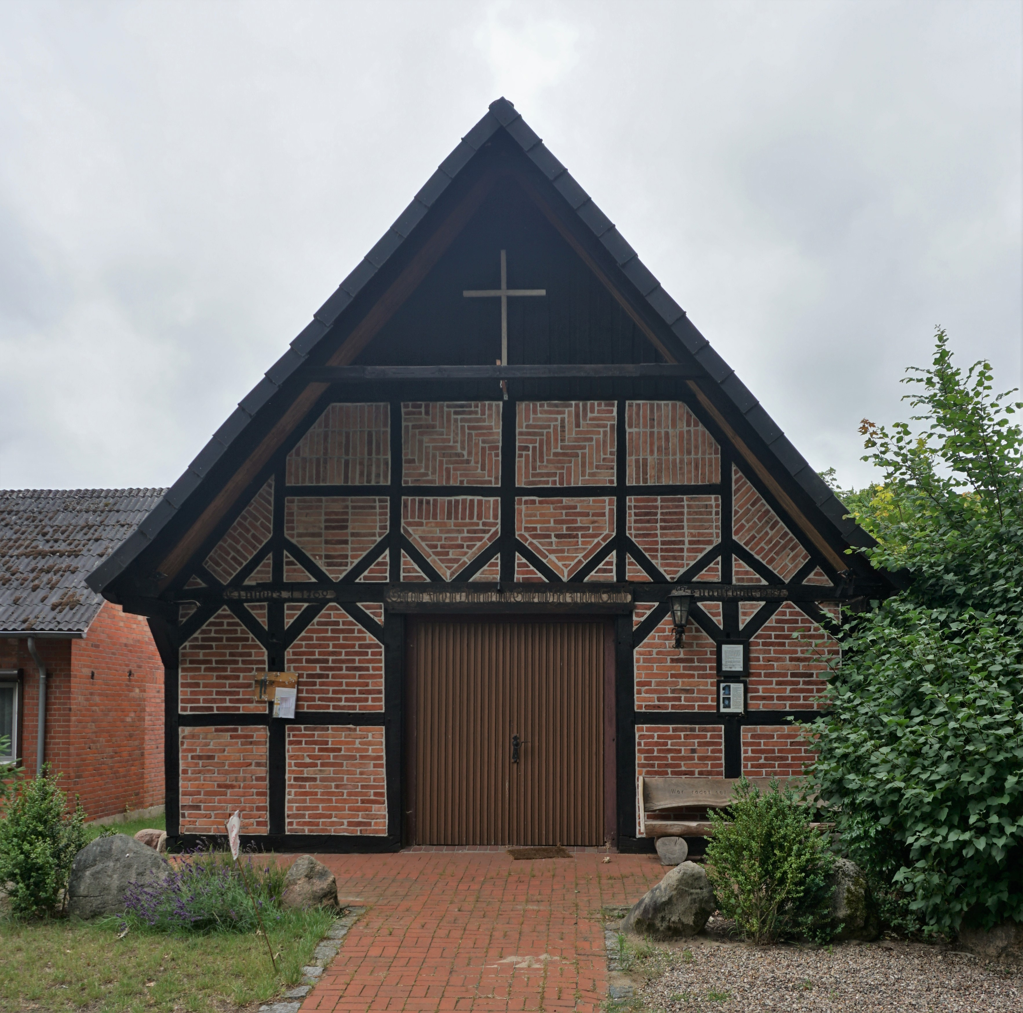 The chapel of Weste is a half-timbered chapel in the district of Uelzen in Lower Saxony.